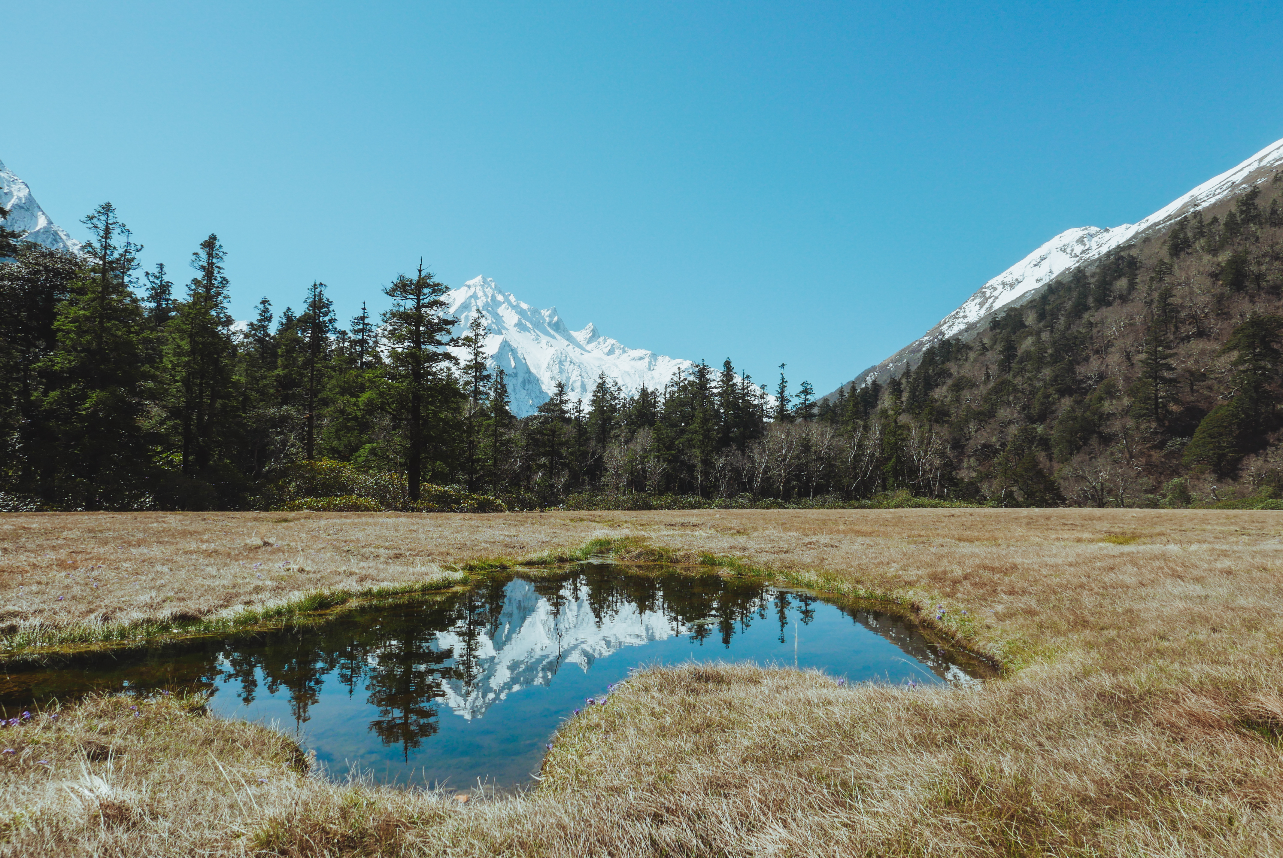 Landscape of Nepal with water reflections of mountains and trees at Api Nampa Conservation Area, Nepal.